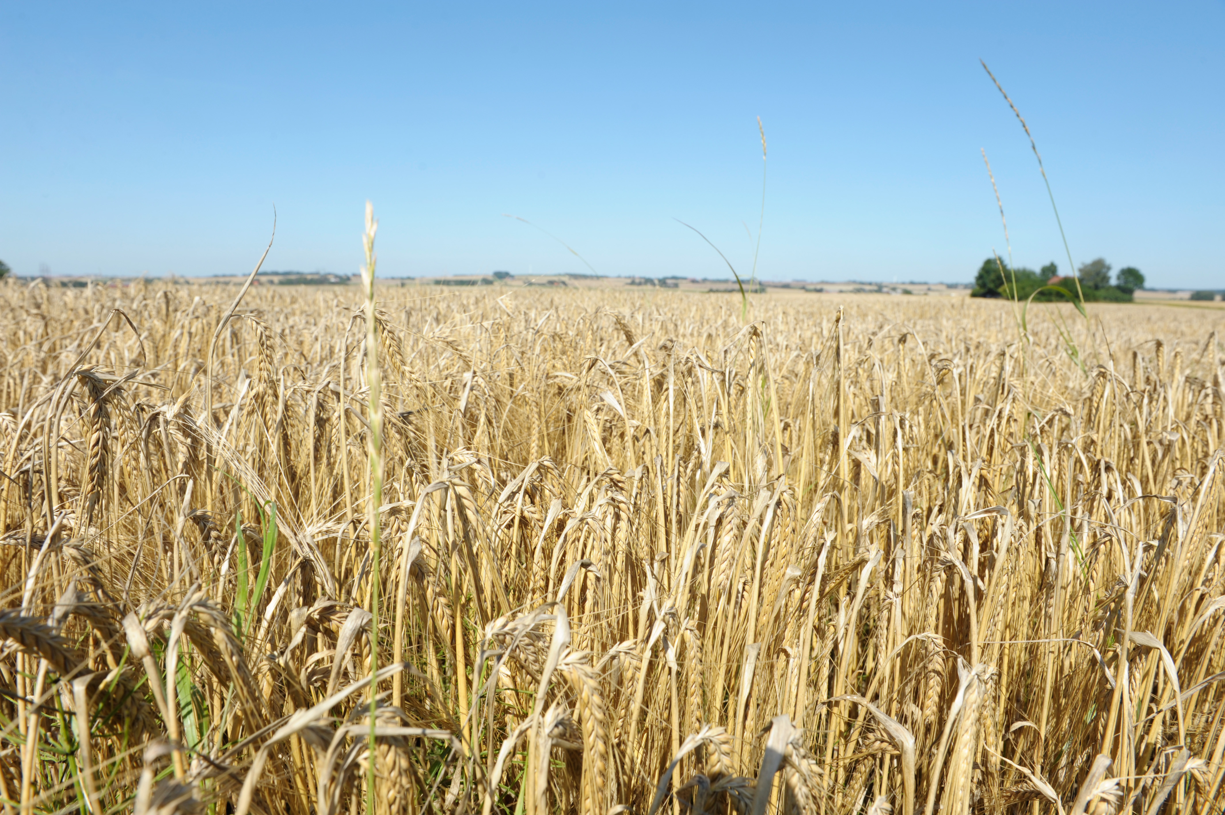 Åker i Skåne Sverige Keywords: Agriculture and Forestry, Food